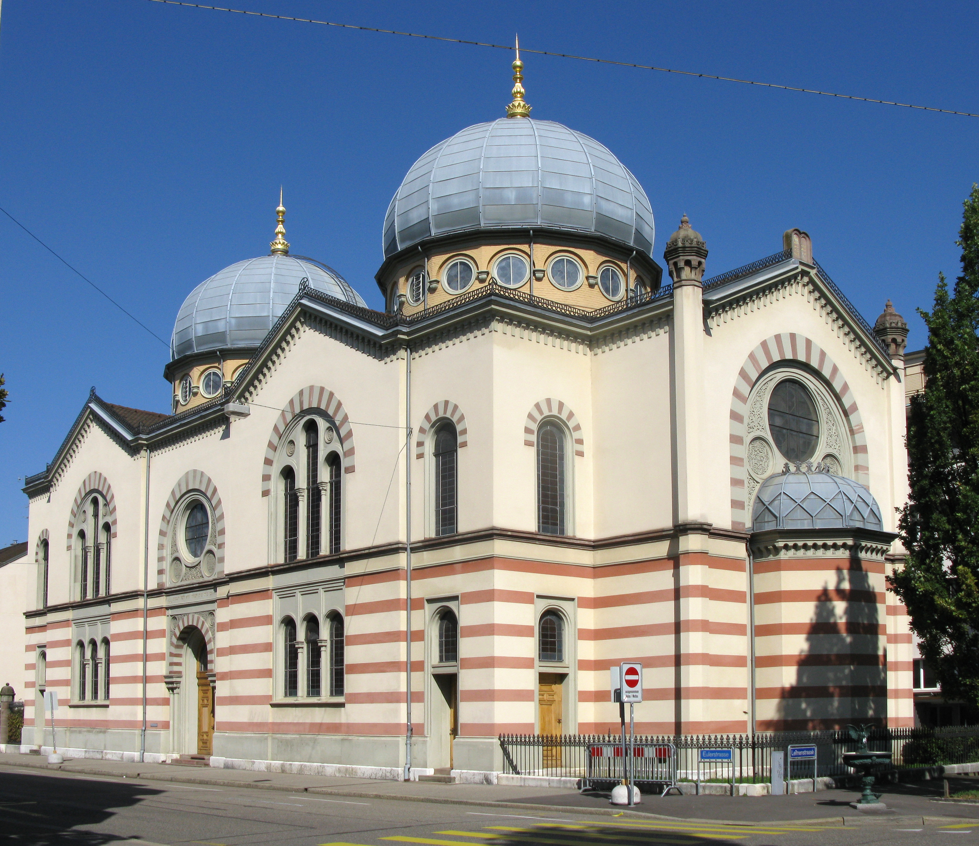 Synagogue